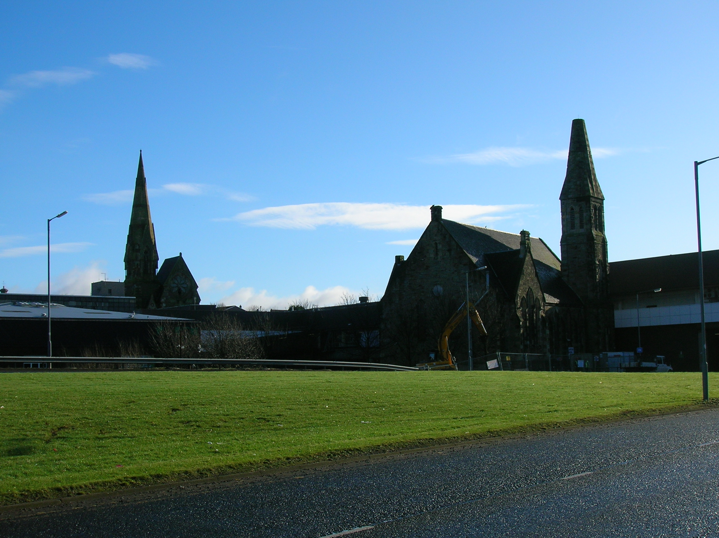 Irvine churches and the Rivergate centre, North Ayrshire, Scotland